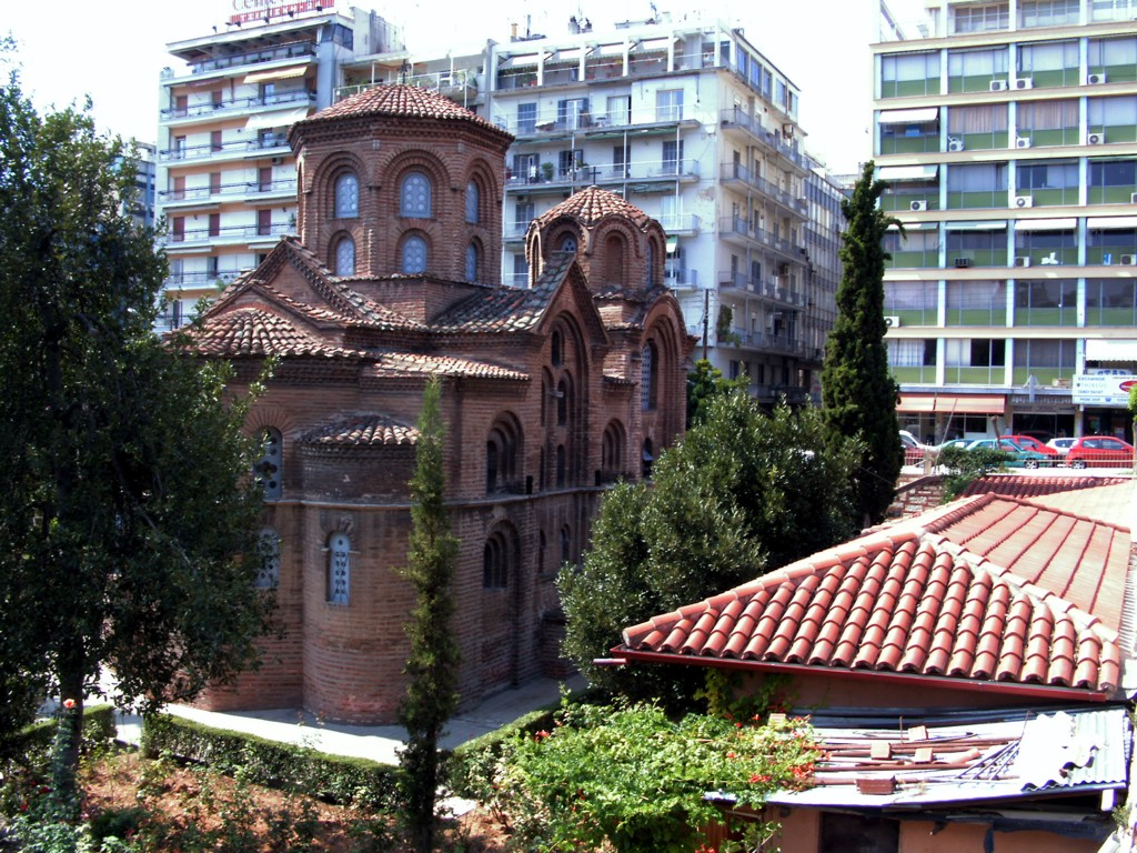 Church of Panagia Chalkeon in Thessaloniki